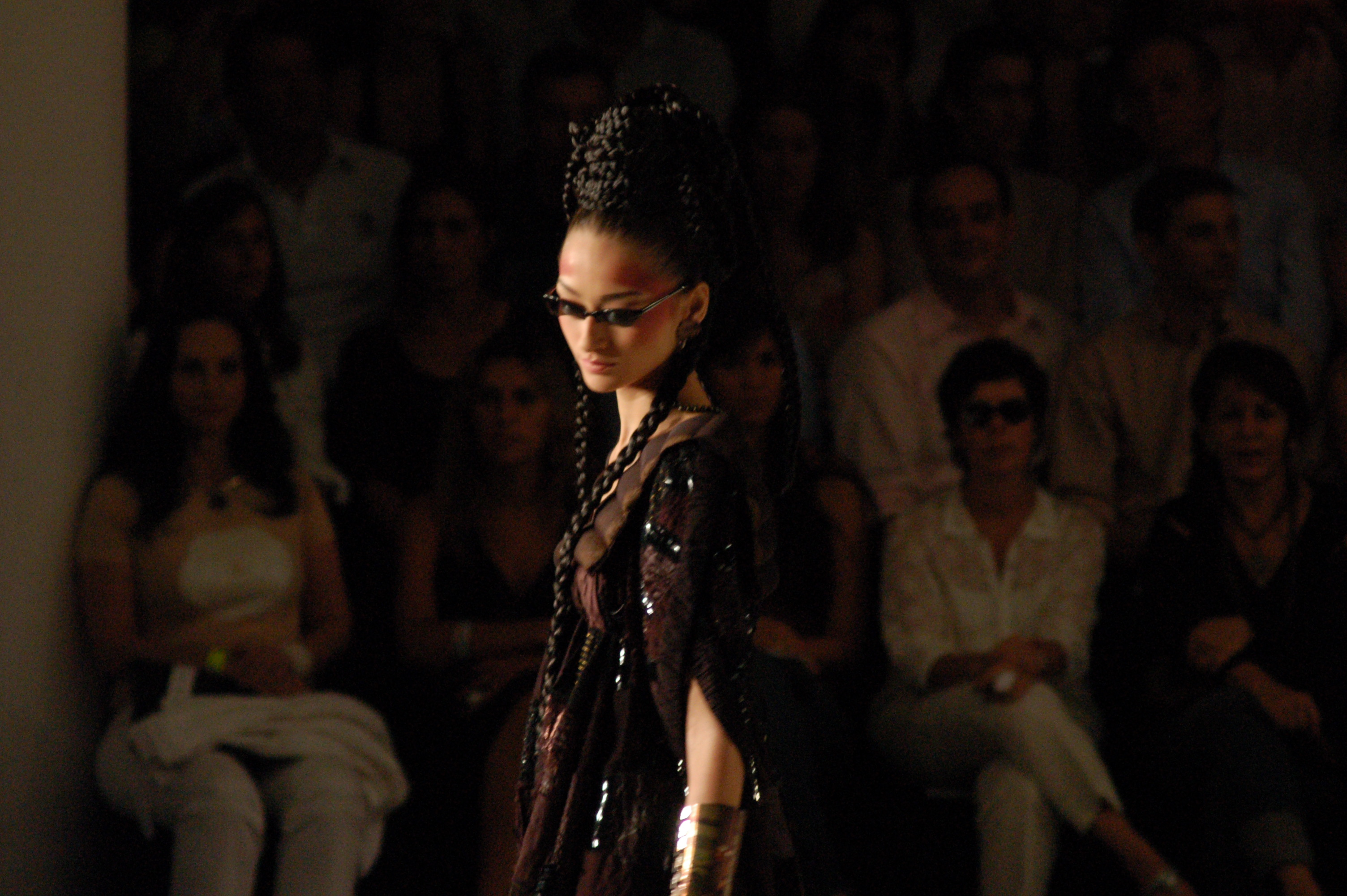 Bruna Tenorio at Sao Paulo Winter 2007 Fashion Week